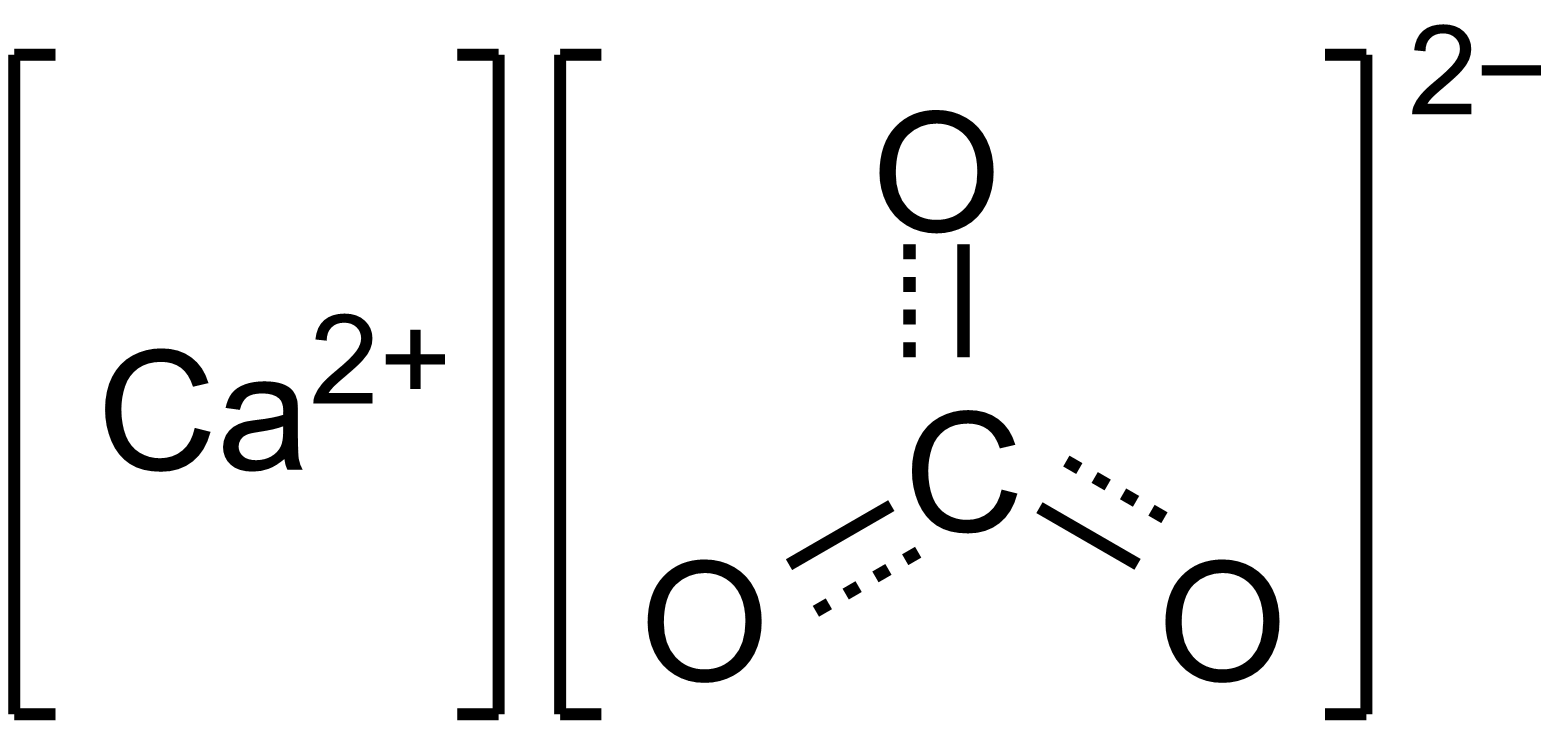 Chemical structure of calcium carbonate